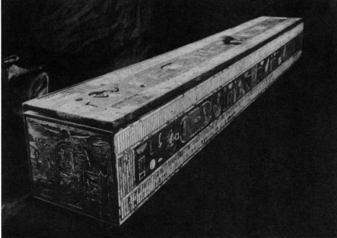 Giza necropolis. Tomb of Hetepheres. The curtain box as restored in the Cairo Museum.